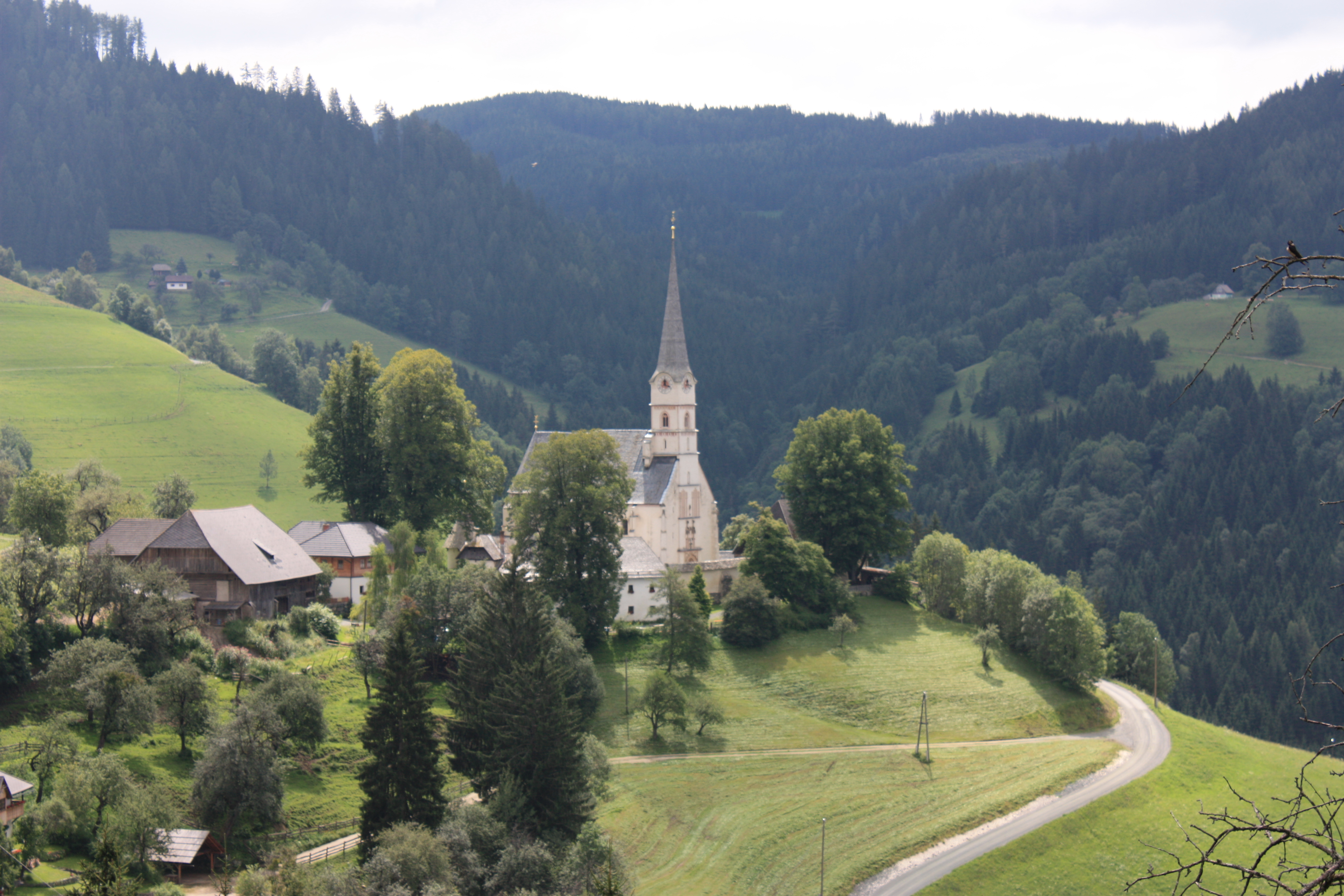 Village Hochfeistritz Locality: Hochfeistritz Community:Eberstein